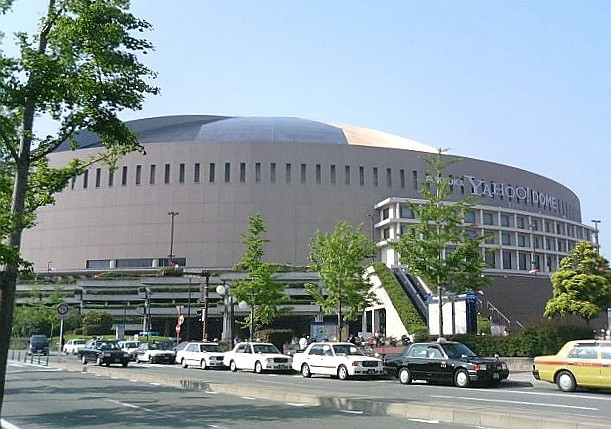 The Fukuoka Dome from south.